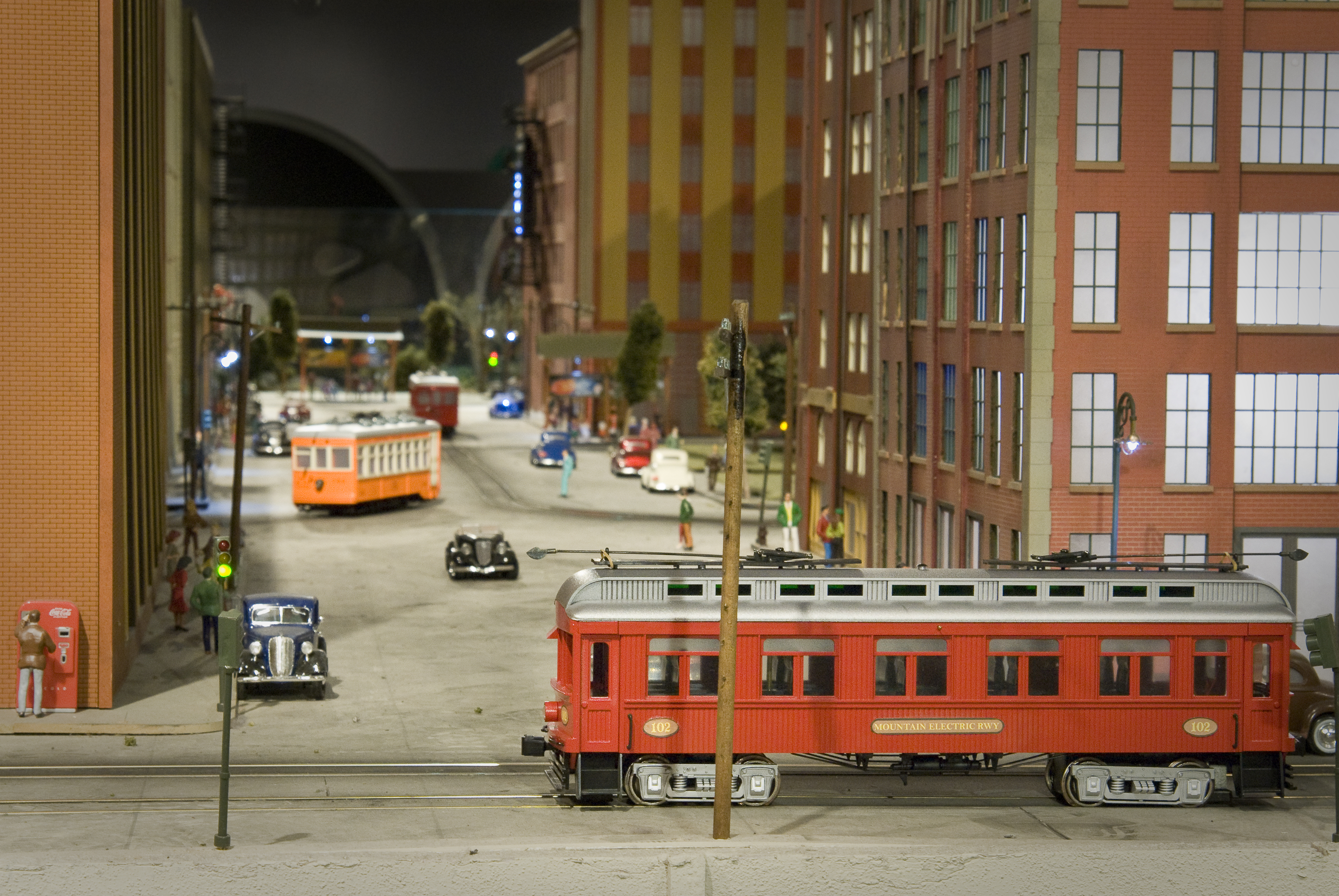 A street car passes through a 1950's neighborhood in the Middle Era section of EnterTRAINment Junction.